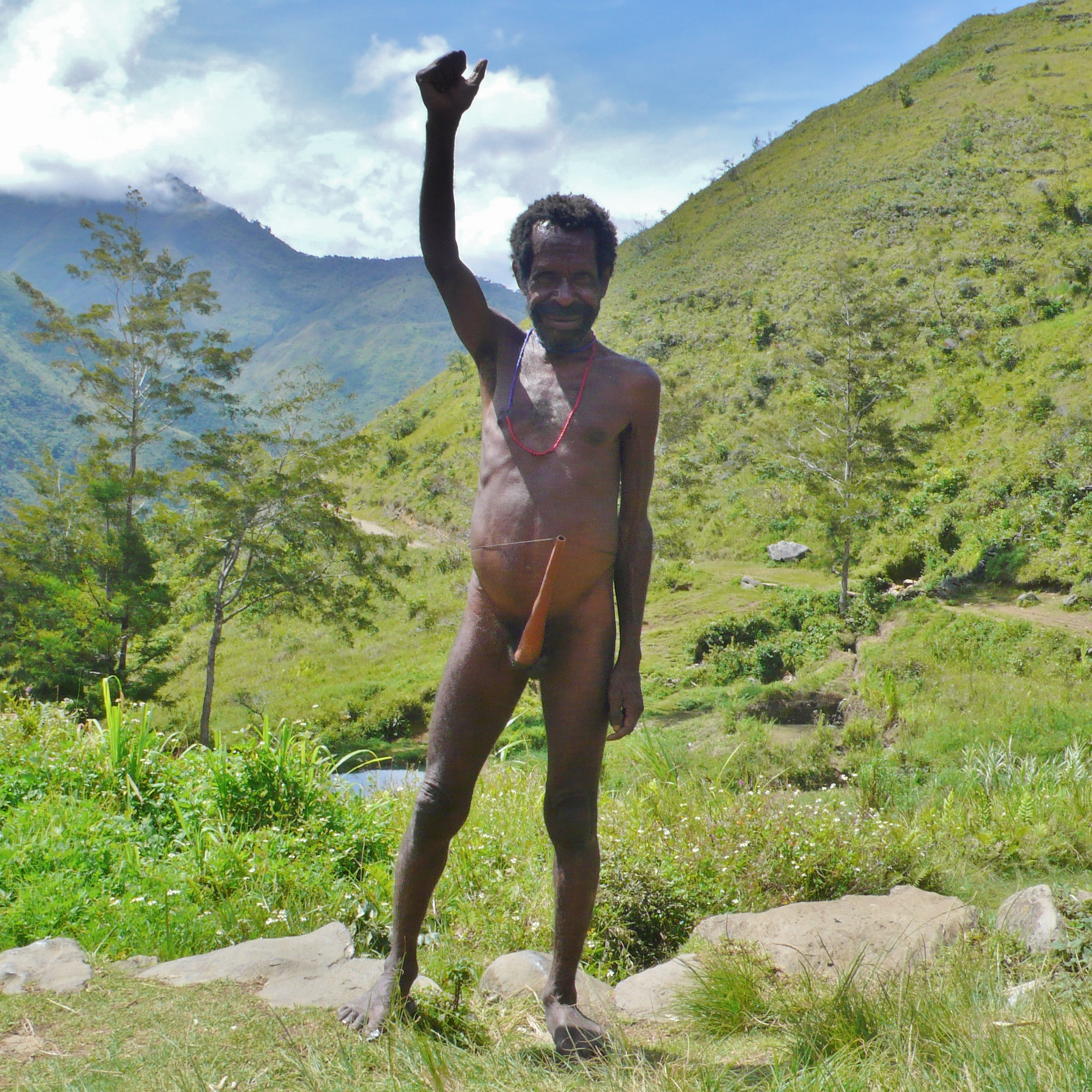 Vallée de Baliem en Papouasie (Indonésie) Baliem Valley in Papua (Indonésia)